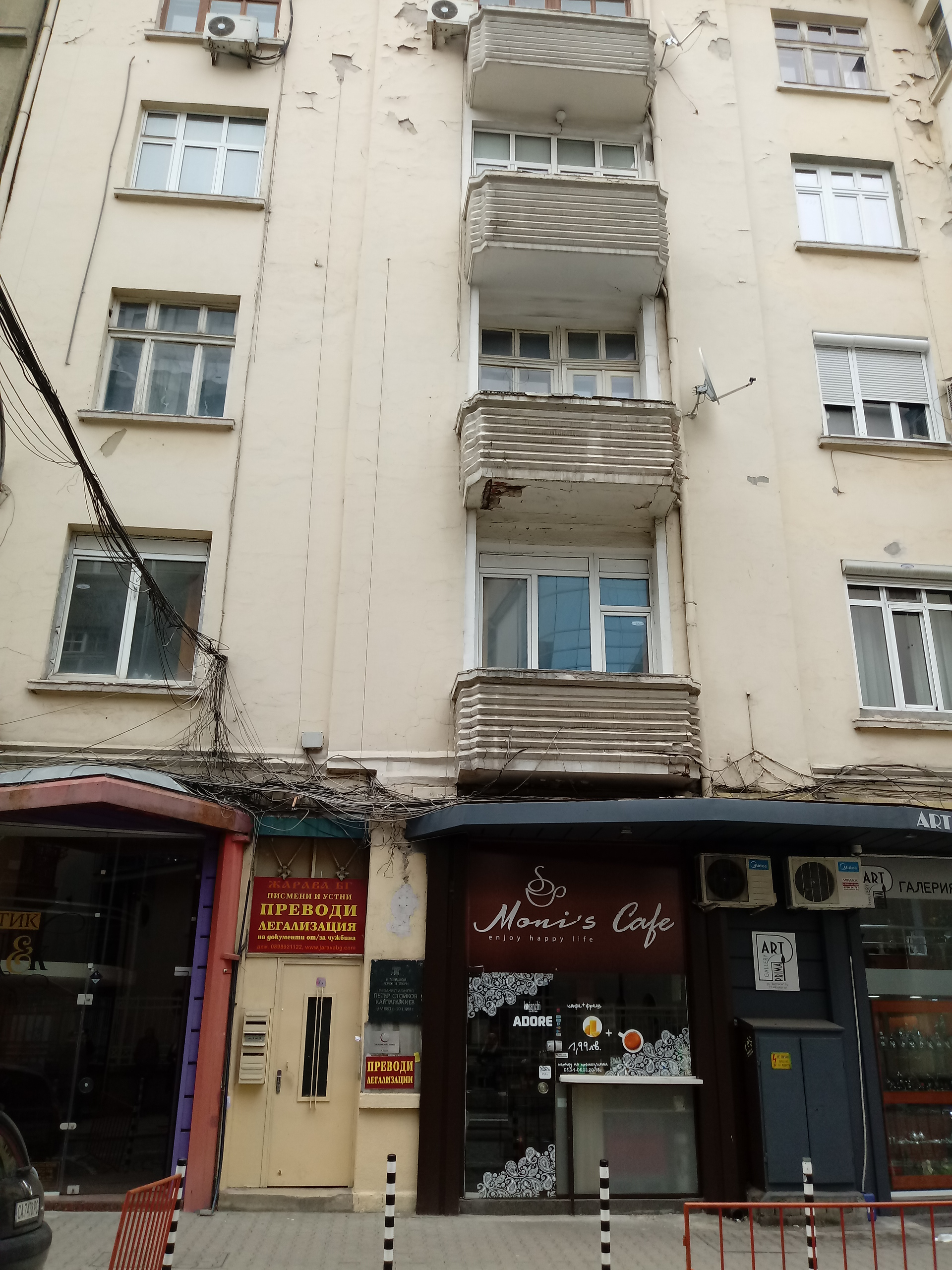 Petar Kantardzhiev home with memorial plaque, 7A Aksakov Str., Sofia